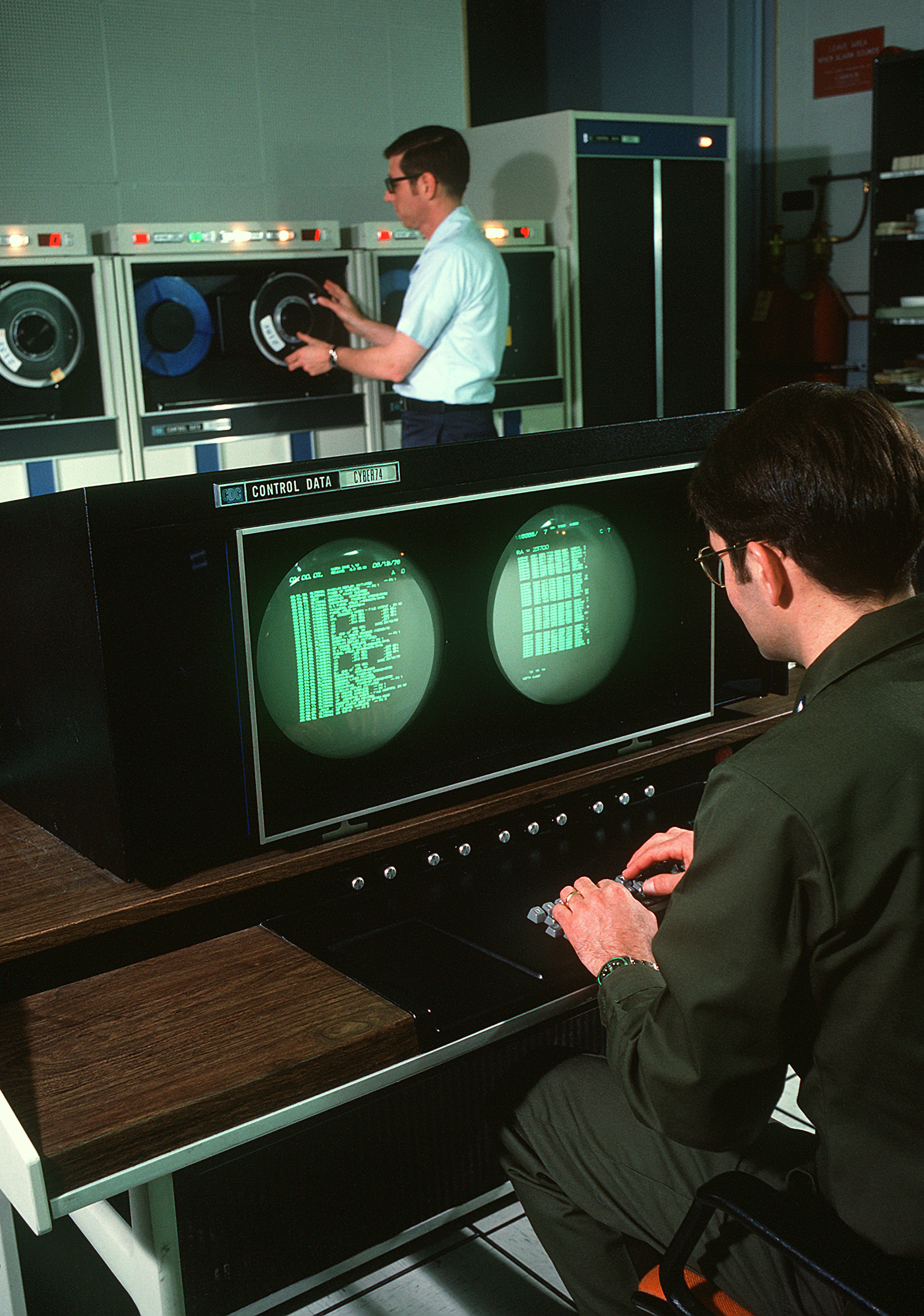 Personnel inside the data processing center for COBRA DANE, an intelligence-gathering phased-array system specially constructed to monitor Soviet ballistic missile testing on Siberia's Kamchatka Peninsula. Location: SHEMYA AIR FORCE BASE, ALASKA (AK) UNITED STATES OF AMERICA (USA)